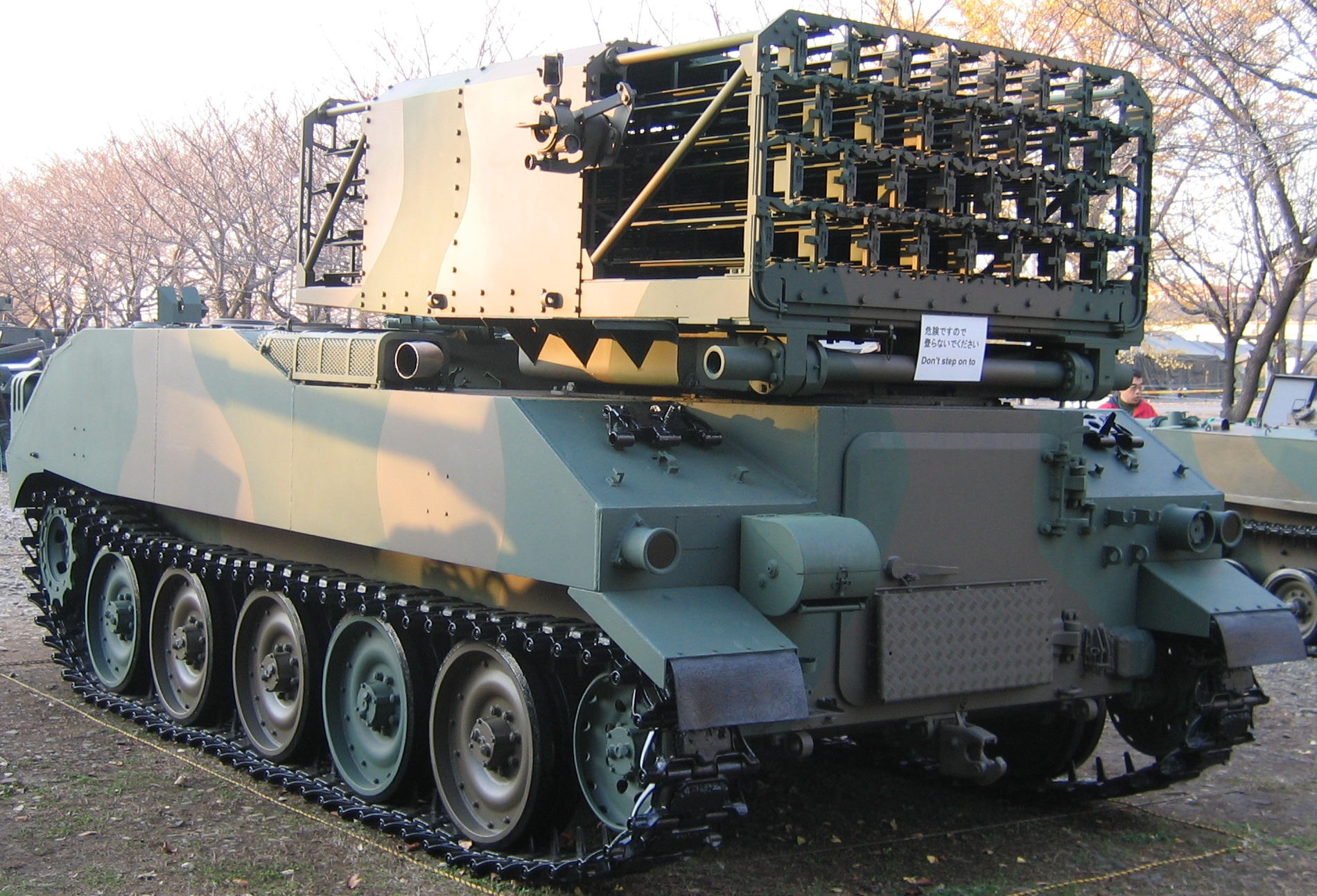 Left-rear view of a Type 75 130 mm Multiple Rocket Launcher at the Sinbudai Old Weapon Museum, Camp Asaka, Japan